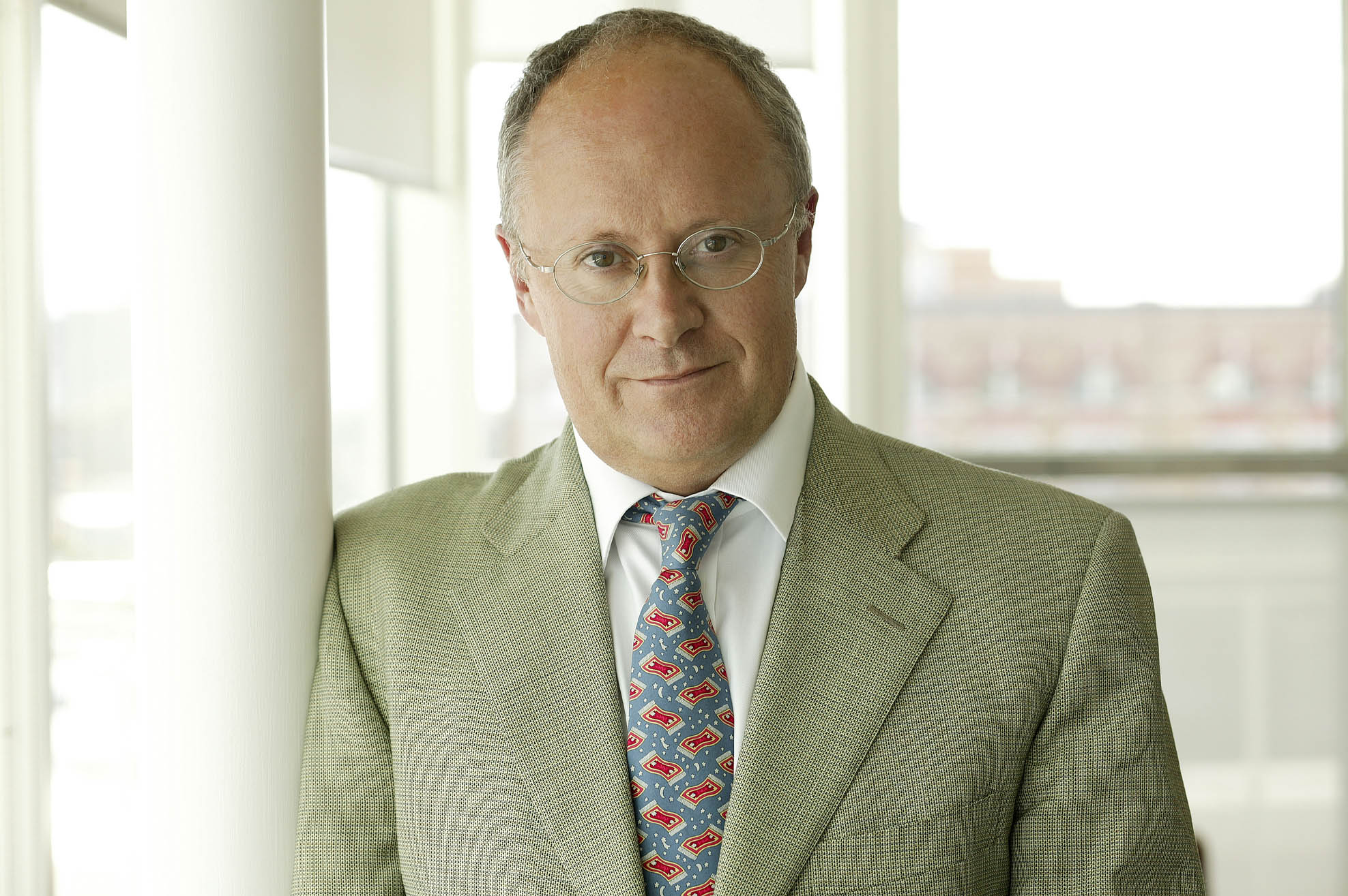 Roger Parry at Clear Channel